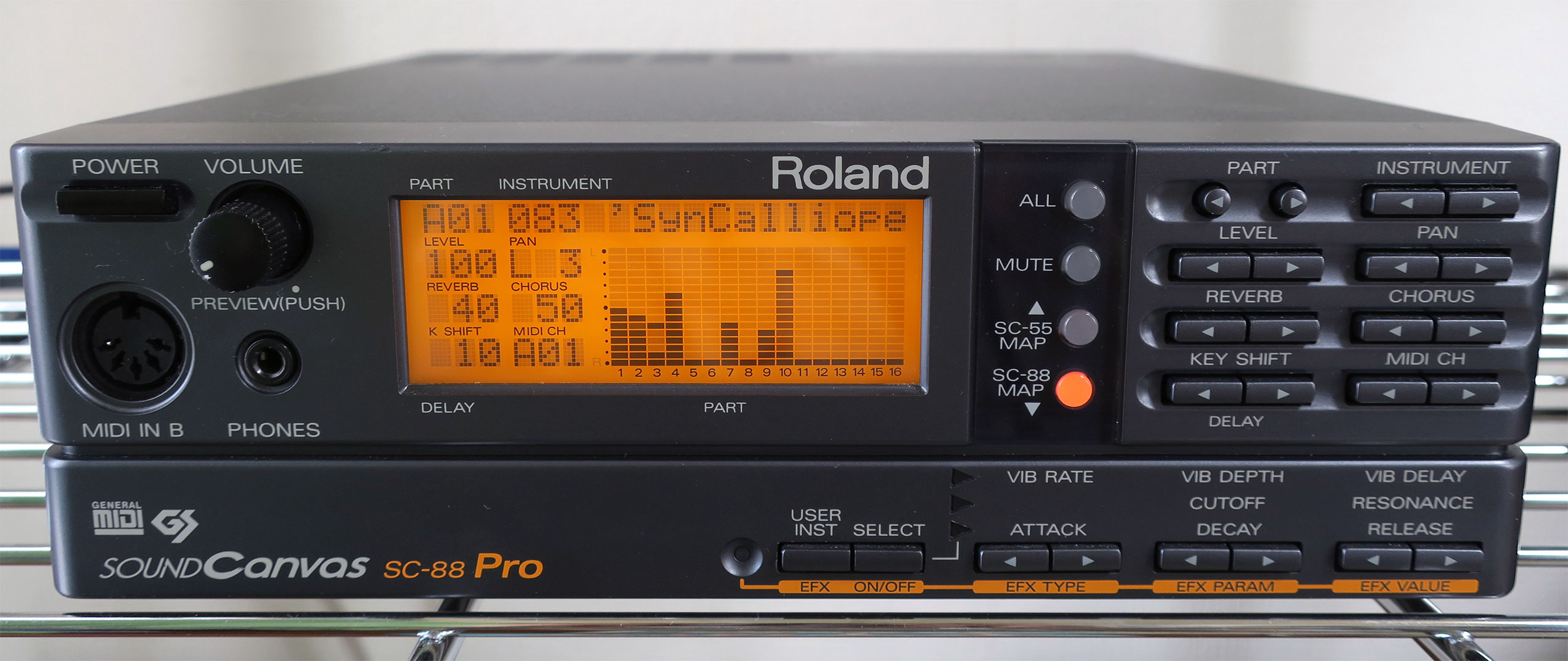 Roland SC-88Pro MIDI sound module. Roland Sound Canvas